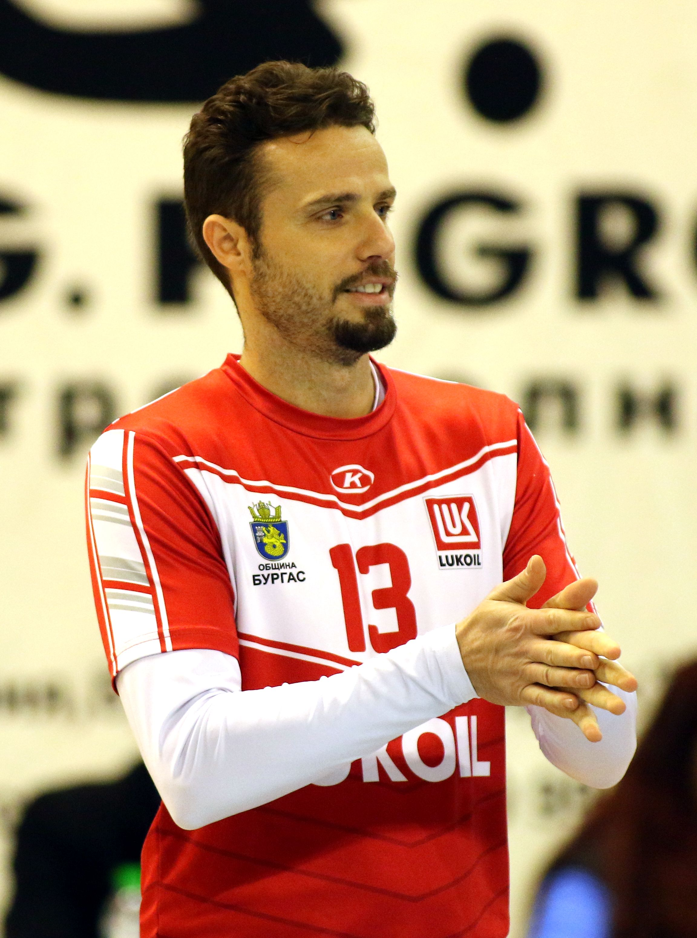 Teodor Salparov is a Bulgarian volleyball player. He plays as Libero of the National Volleyball Team of Bulgaria.